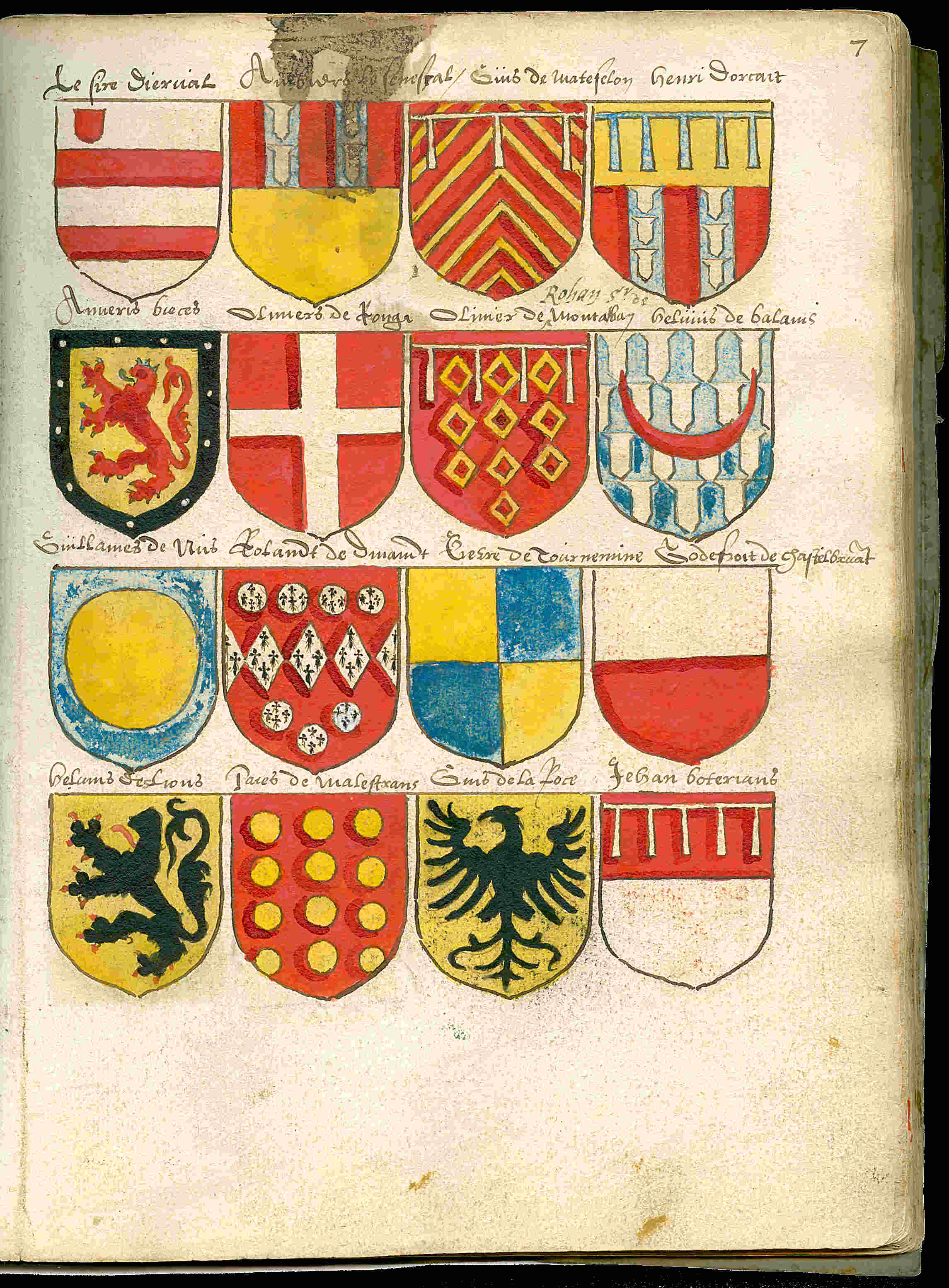 Page 07 from a copy of the Beyeren armorial / Wapenboek Beyeren from ca. 1600. The original Beyeren armorial from 1405 can be viewed at the website of the KB